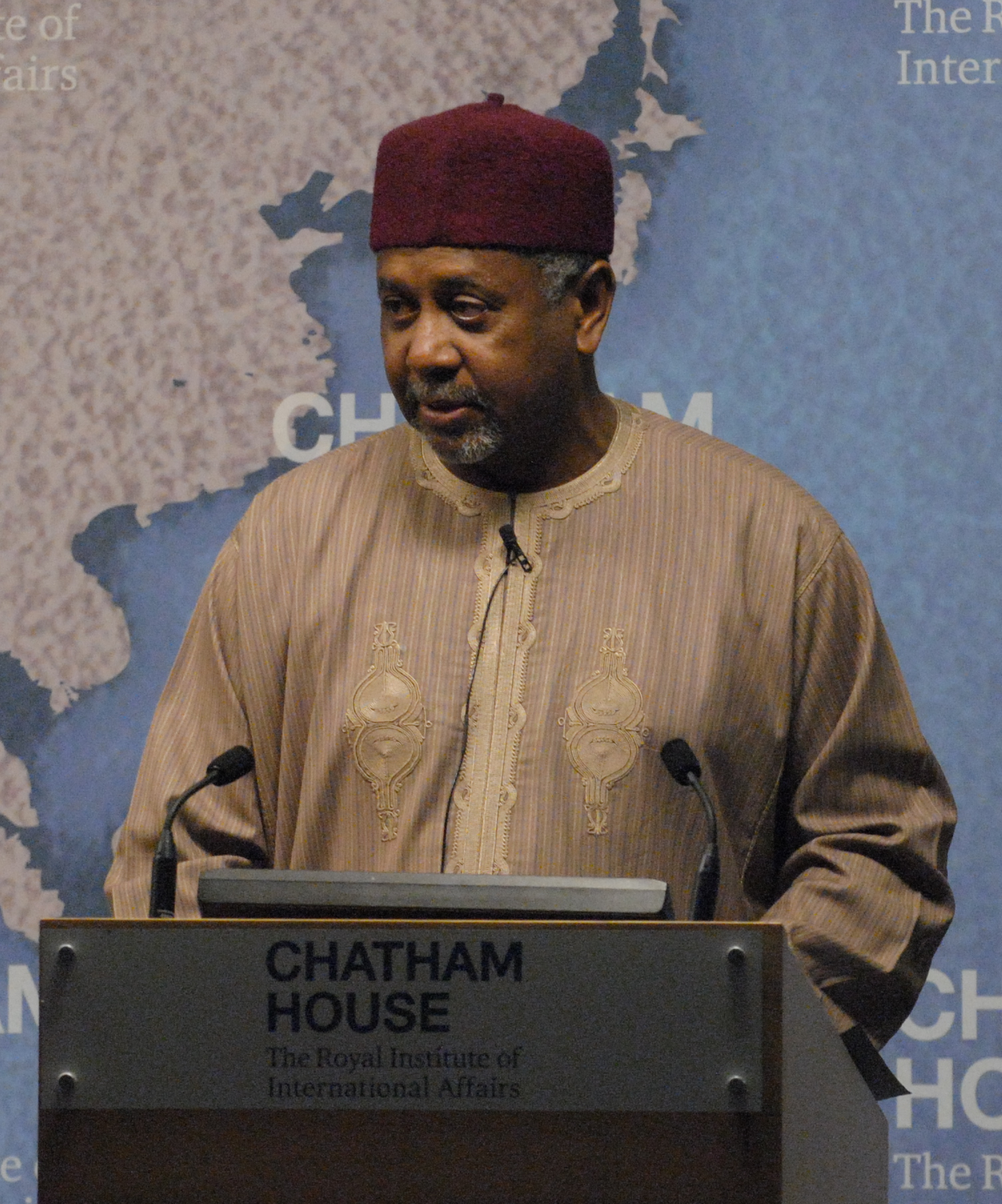 Nigeria's Security: Insurgency, Elections and Coordinating Responses to Multiple Threats, 22 January 2015, cht.hm/1yJcUF4